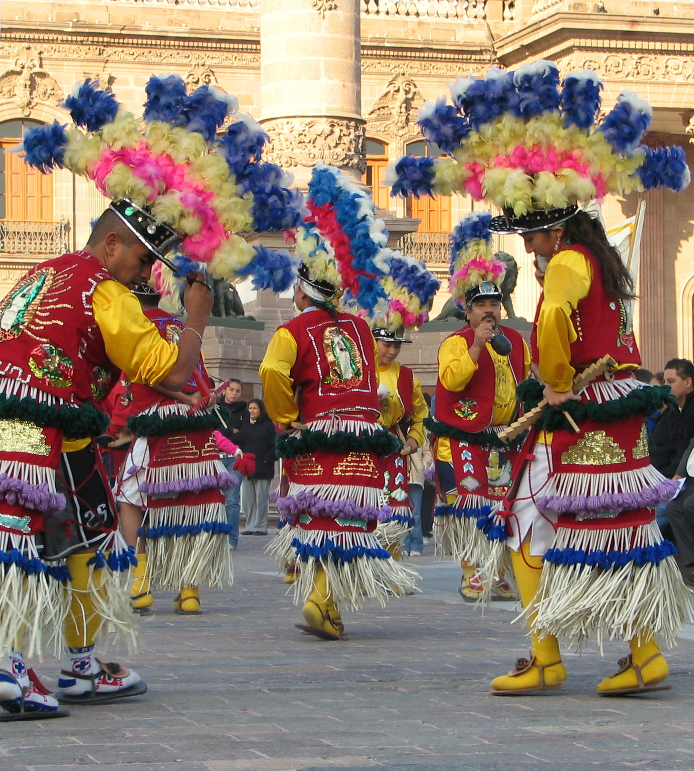 Matachines open processions to honor the Virgen de Guadalupe on her day. They dance all the way to the temple, often that means several miles. (picture from Downtown Monterrey, Mexico